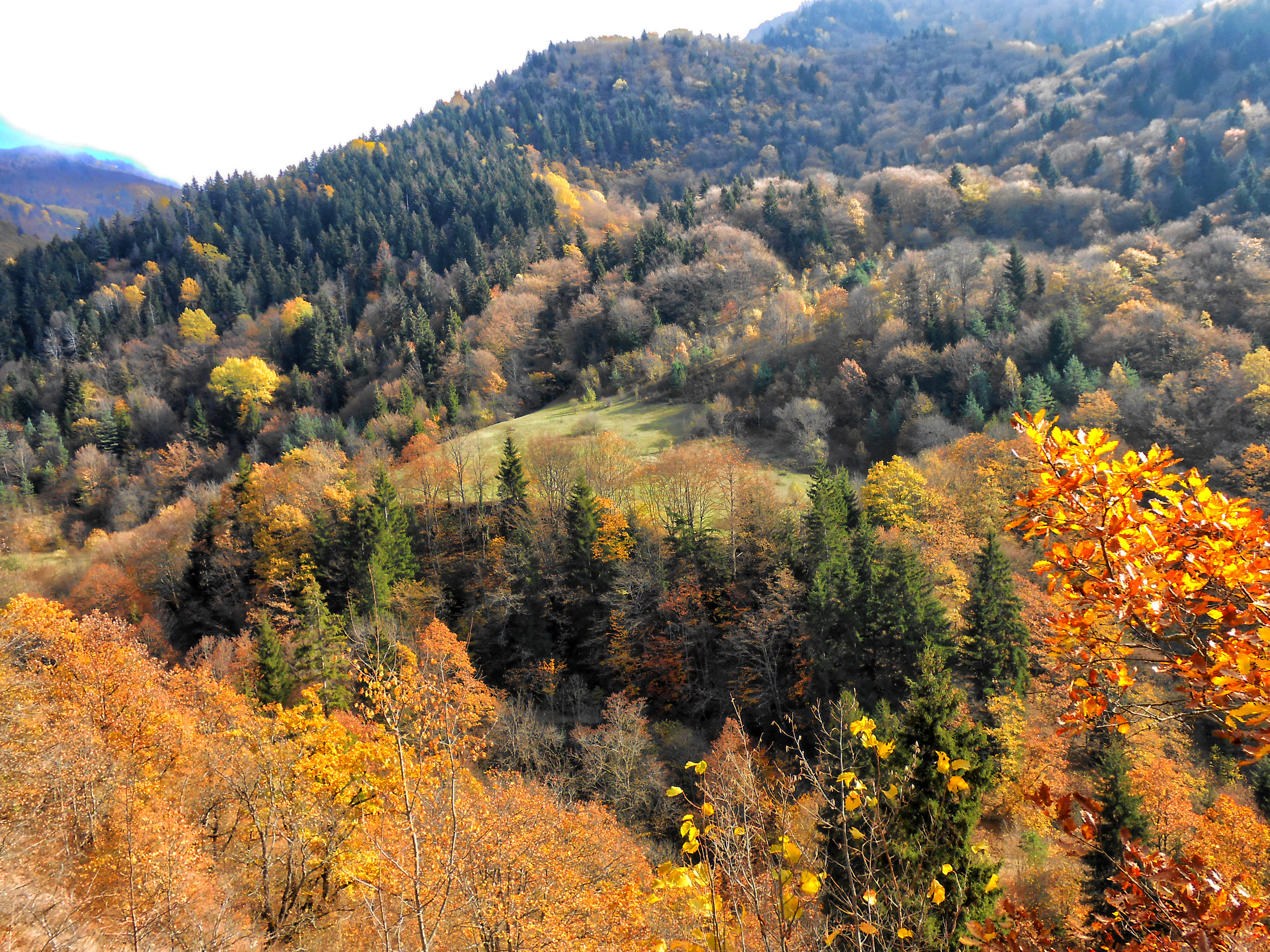 Trialeti Range